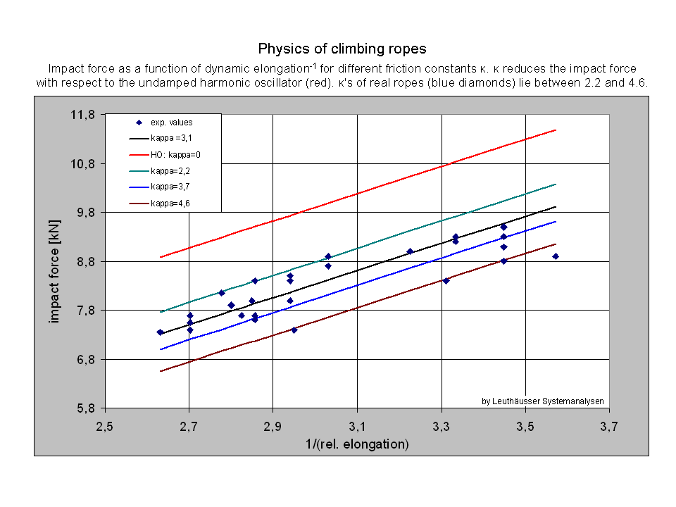 Impact force of climbing ropes as a function of dynamic elongation^(-1) for different friction constants κ.